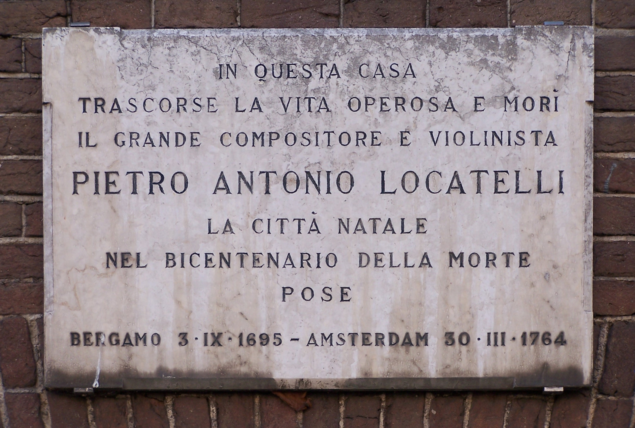 Memorial plaque at Prinsengracht 506, Amsterdam (The Netherlands). Text reads: In questa casa trascorse la vita operosa e mori il grande compositore e violinista Pietro Antonio Locatelli. La citta natale nel bicentenario della morte pose. Bergamo 3-IX-1695 - Amsterdam 30-III-1764